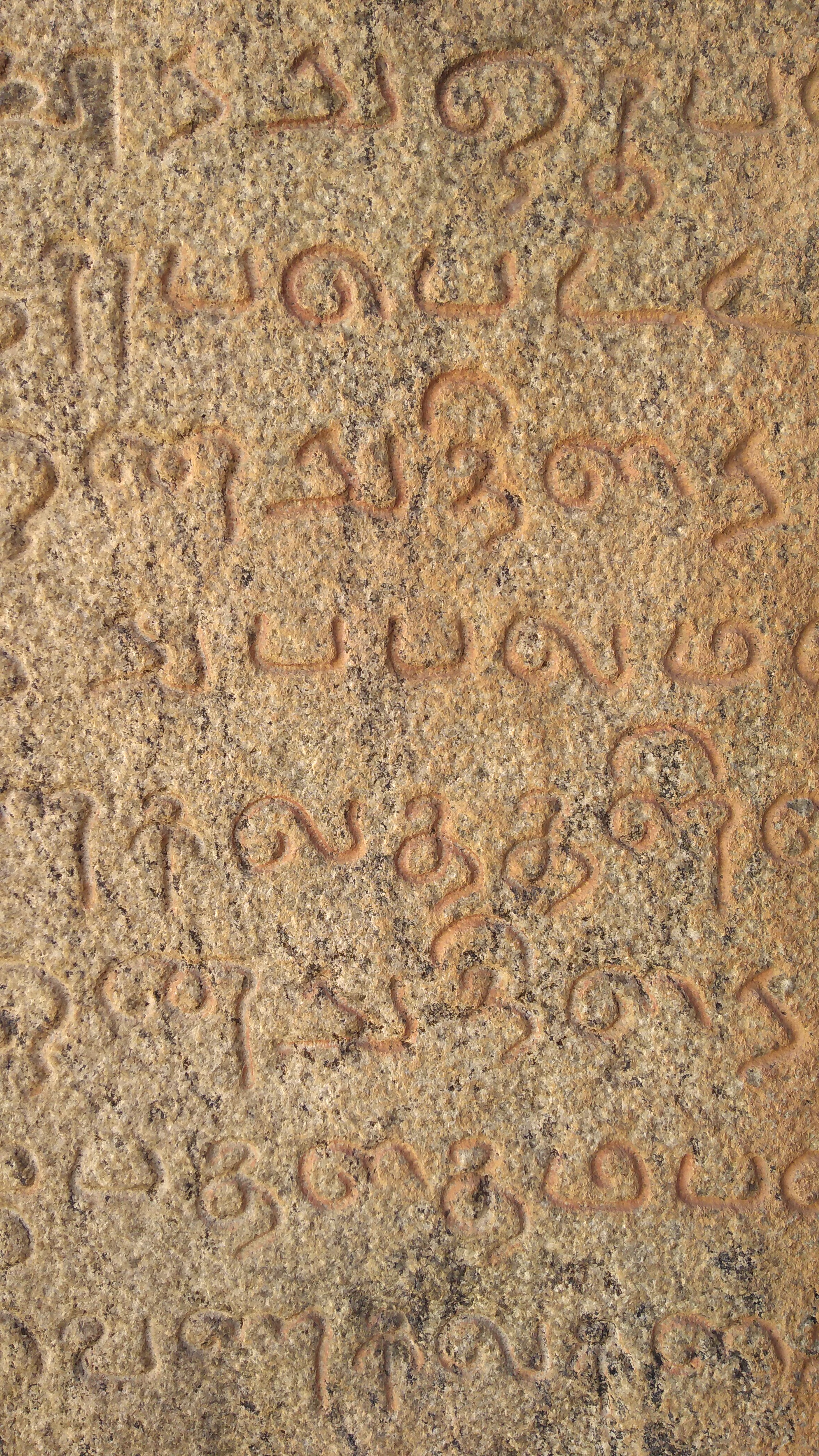 Tamil inscriptions on a wall of big temple